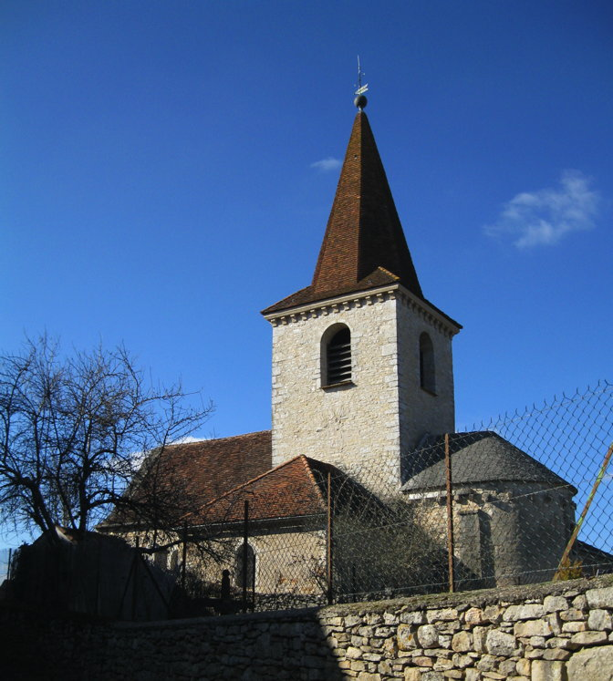 Picture of the church, Grèzes, Lot, France